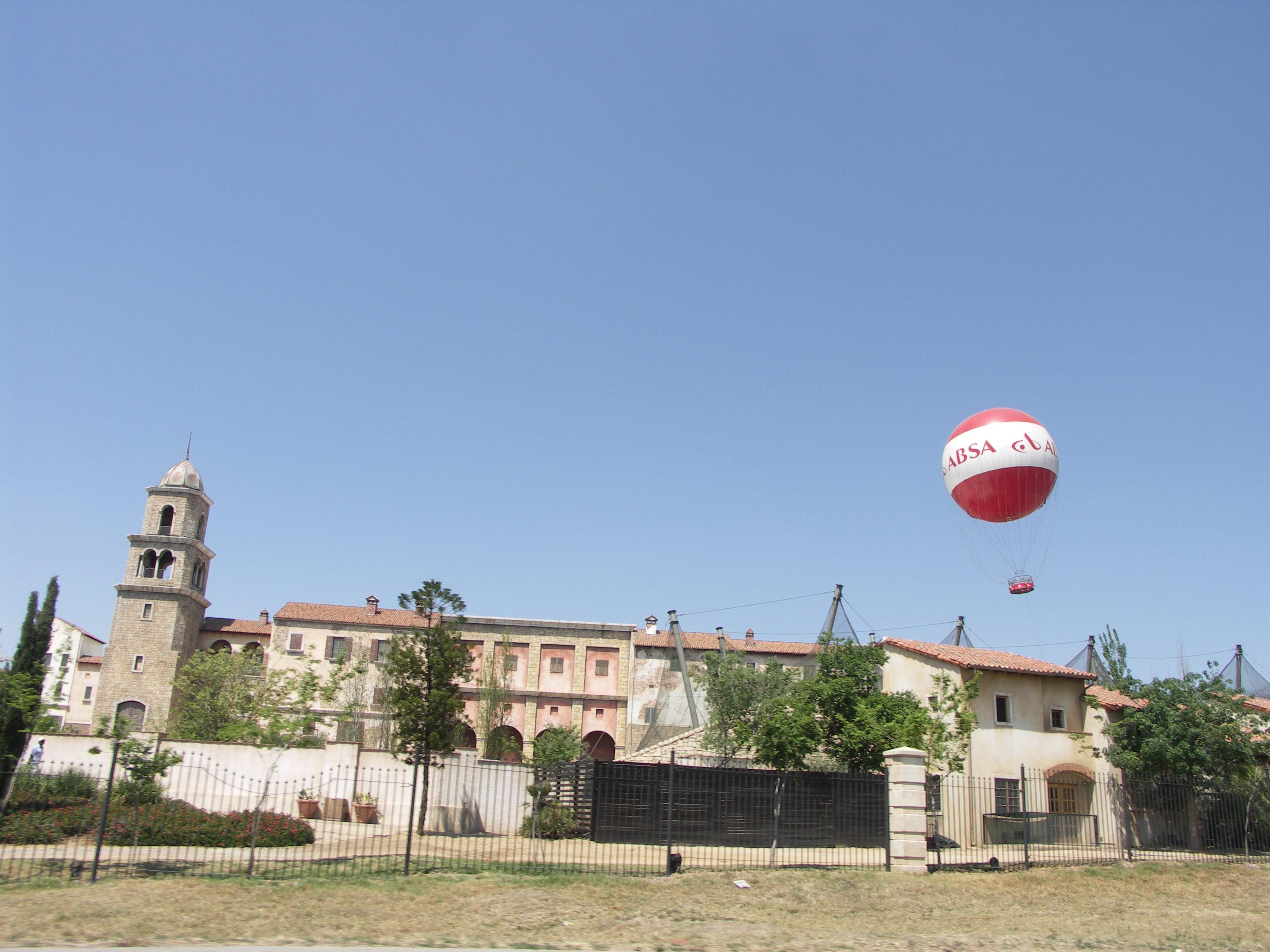 Lindstrand tethered helium aerostat HiFlyer, passenger balloon rising over Montecasino in Fourways, Johannesburg, South Africa